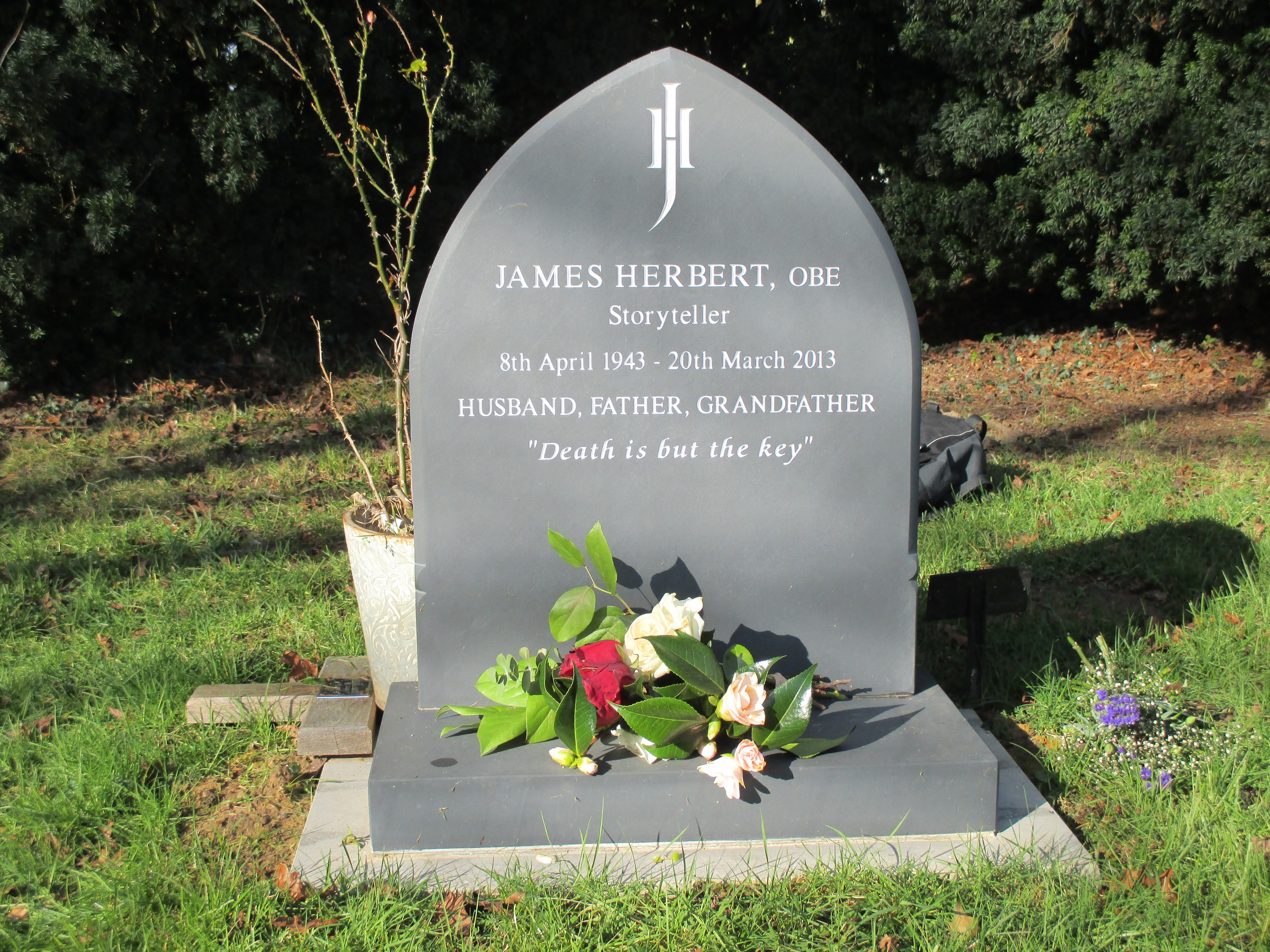 Headstone of the writer James Herbert in the churchyard of St. Peter's, Woodmancote, near Henfield, West Sussex.